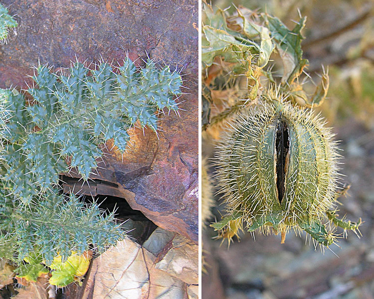 Well armed leaves and seed pod of the Red Rock Nettle. In context at